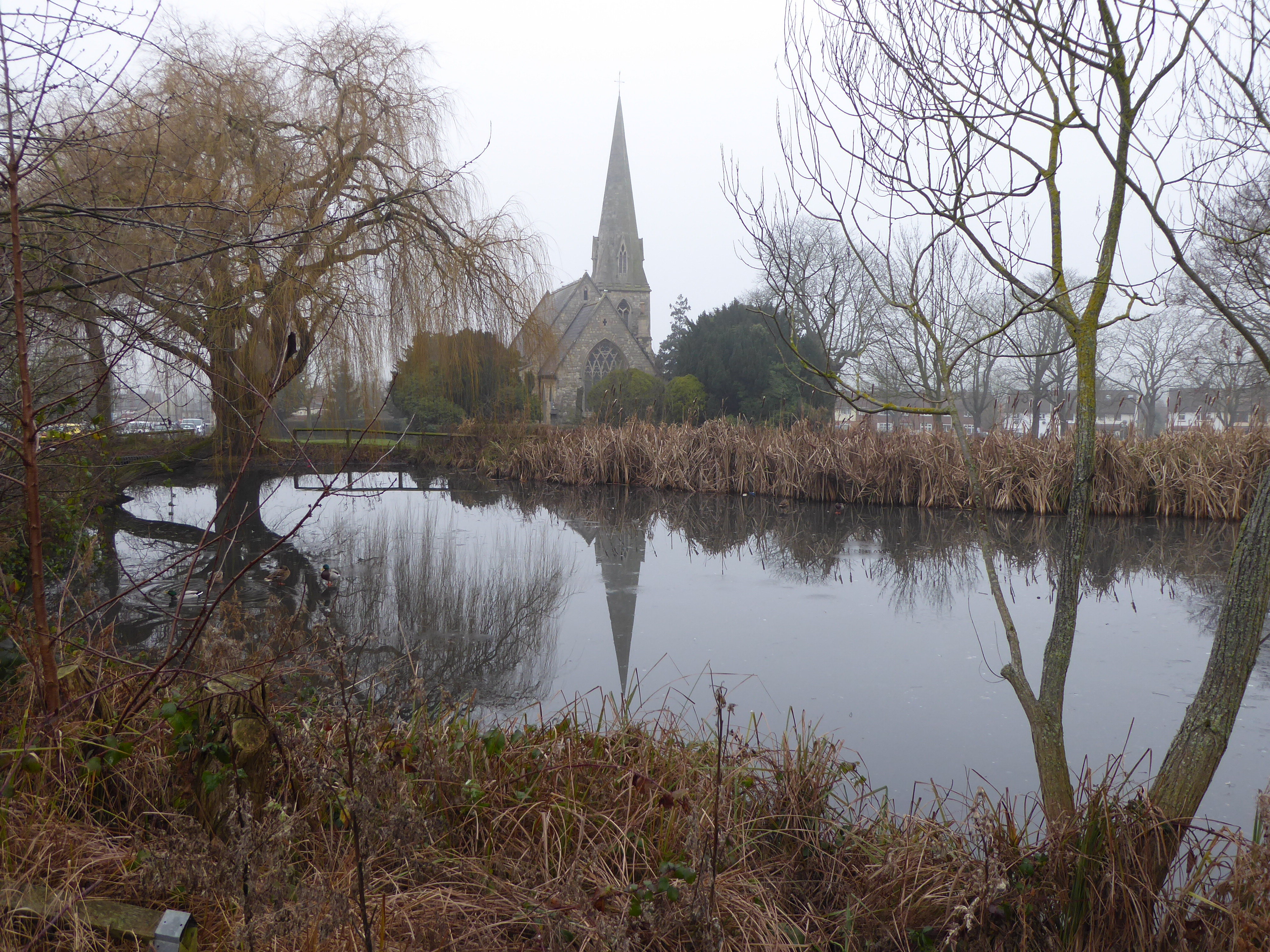 Pond on Woodford Green